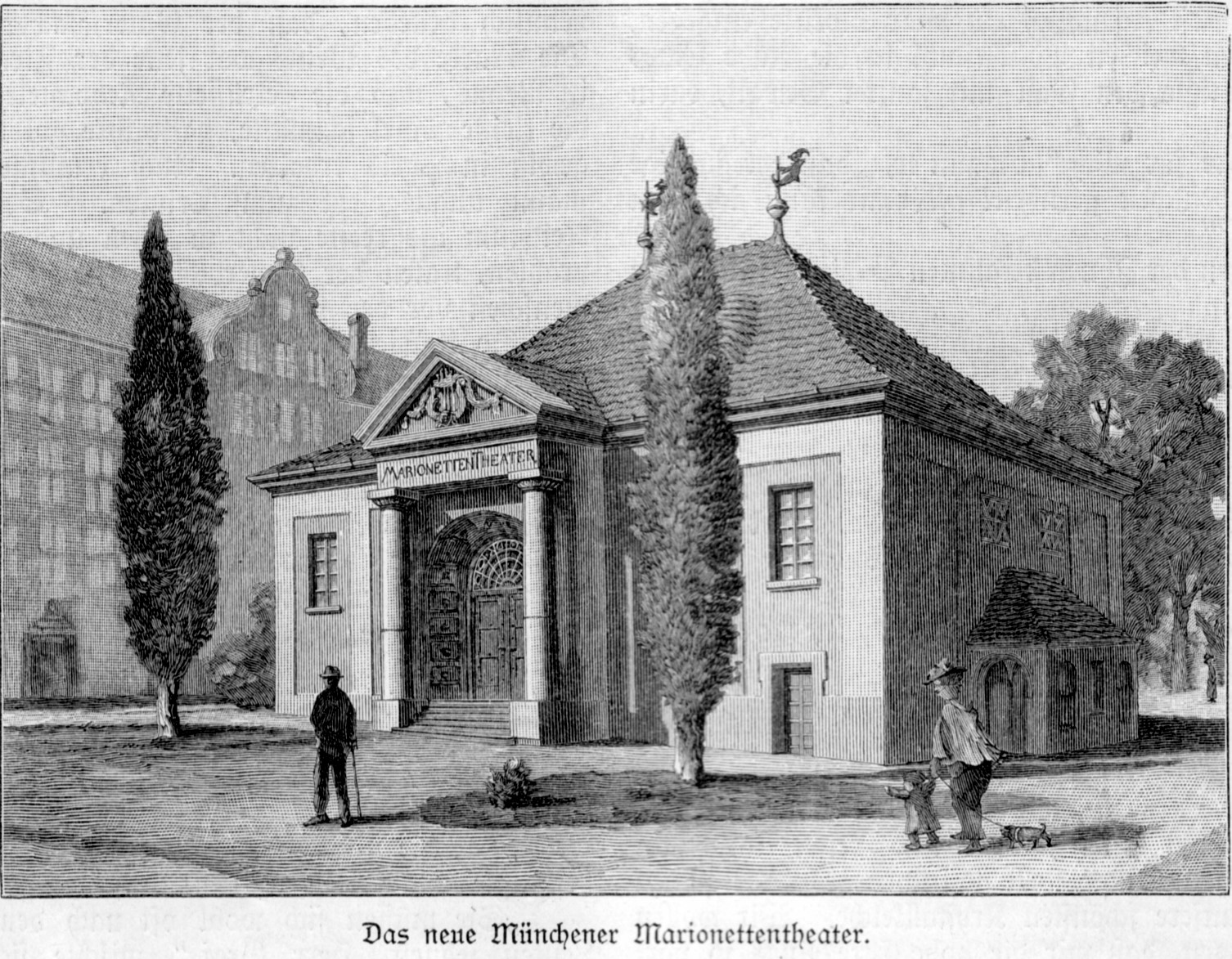 Munich puppet theatre 1900